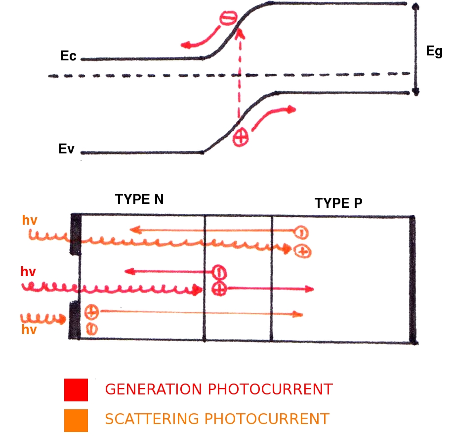 Schematic illustration of the photovoltaic effect